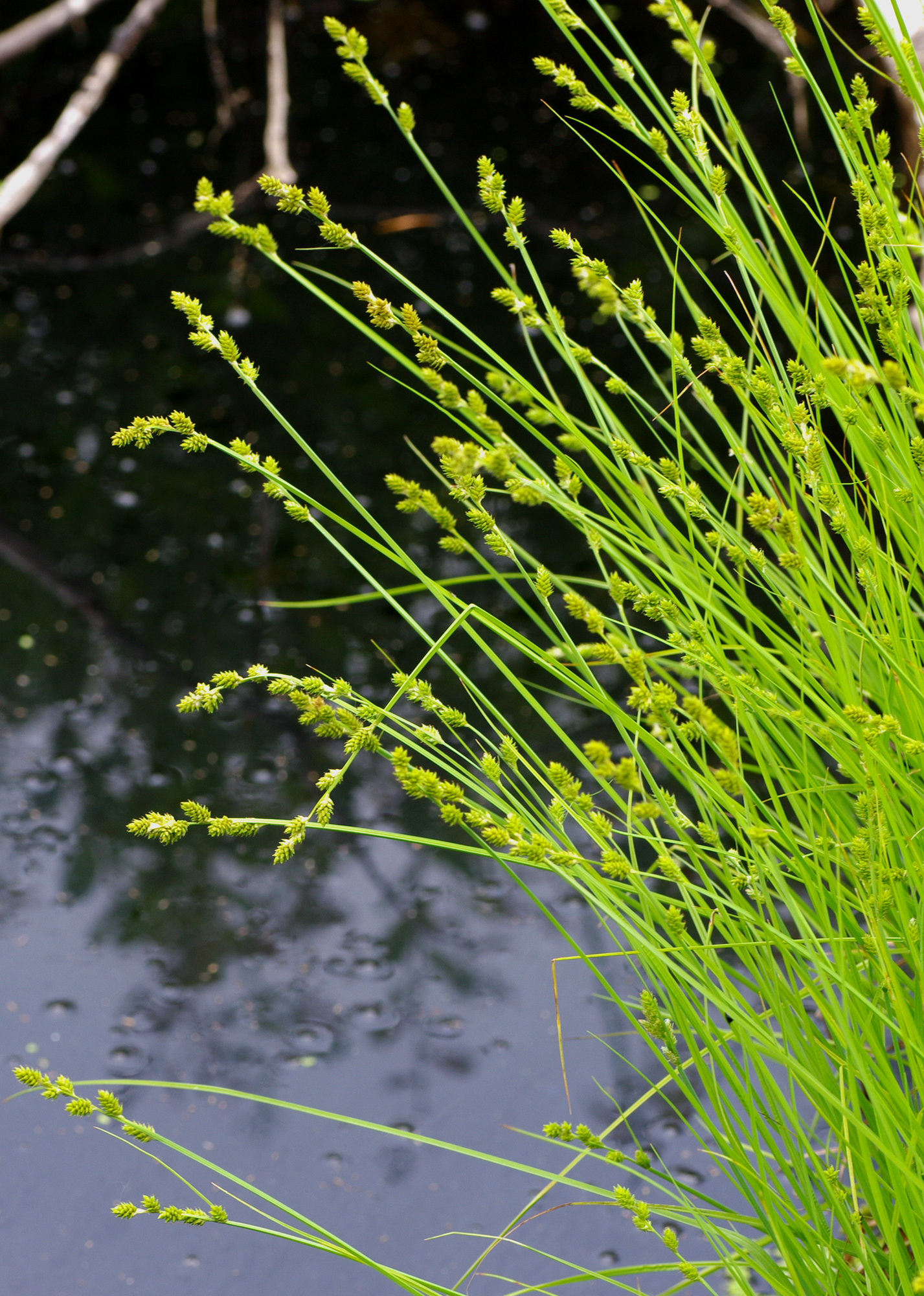 Flowering Silvery Sedge (Carex canescens).